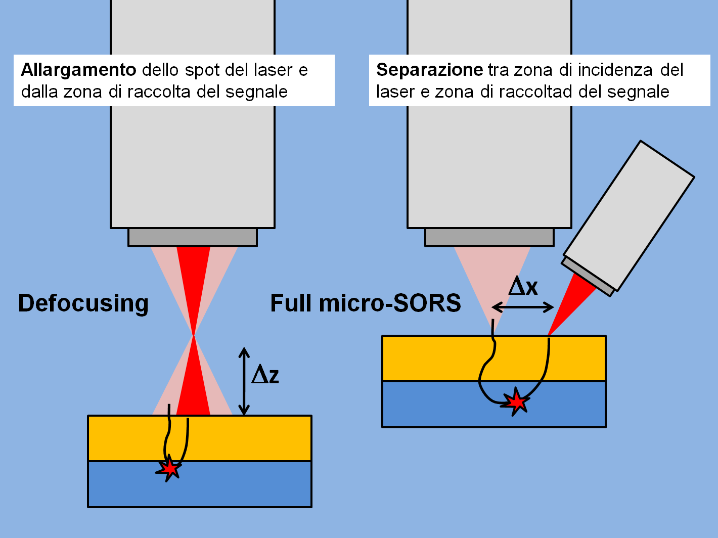 defocusing e full micro-SORS